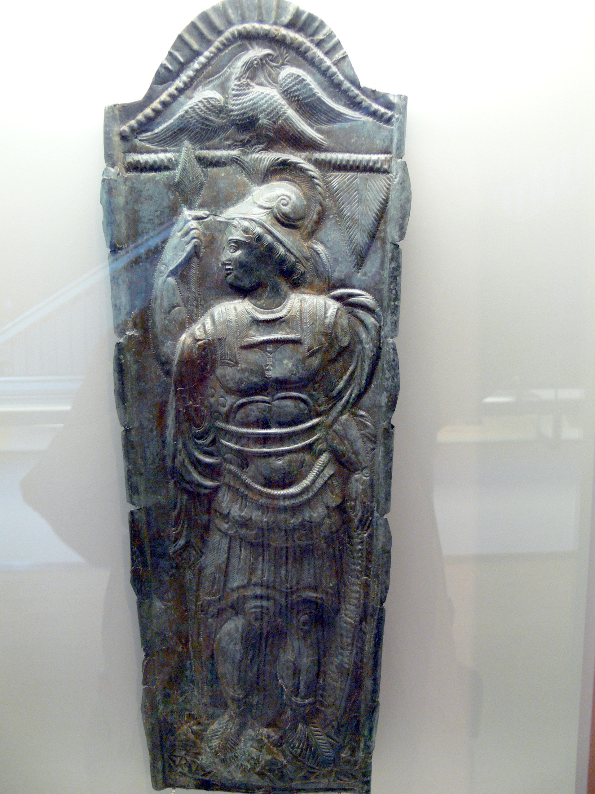 Museum Quintana - Roman department. Roman device for protecting the head of a war horse, adorned with a relief of god Mars ( 2rd/3rd century AD )